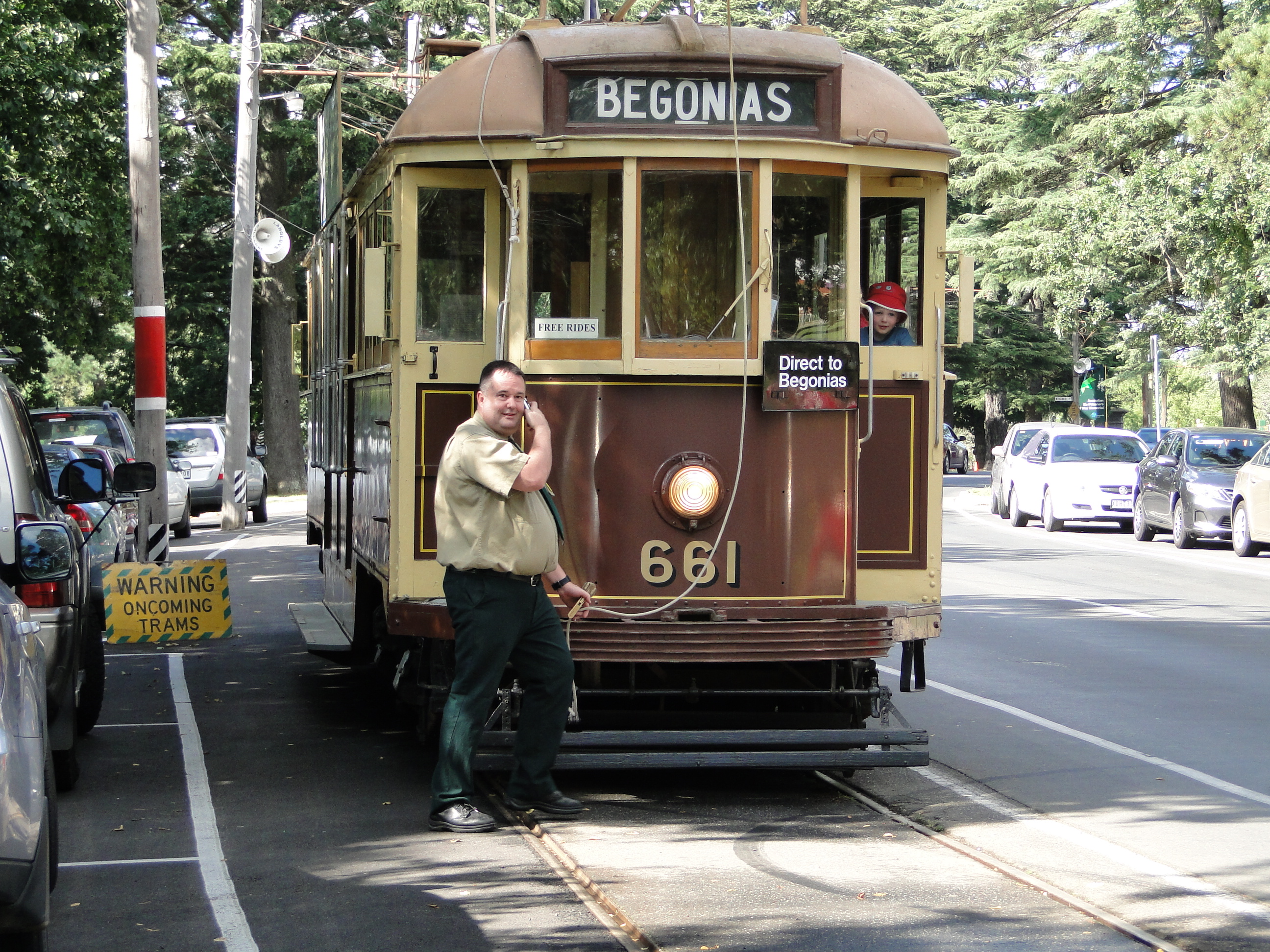 Ballarat tram, number 661, built in 1932 for the Melbourne and Metropolitan Tramways Board, in original colours, at Lake Wendouree, Ballarat, Victoria, Australia